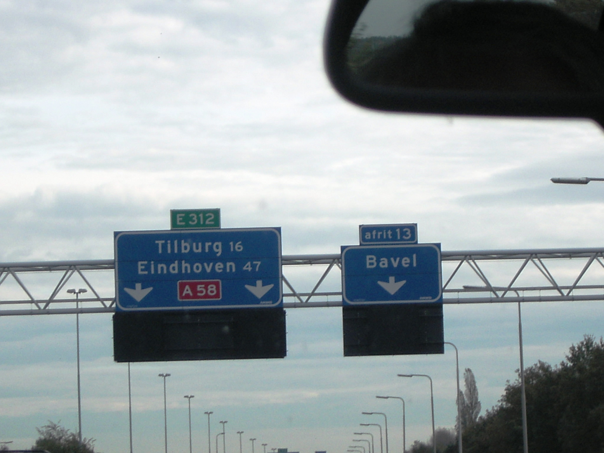 The A58 near Bavel